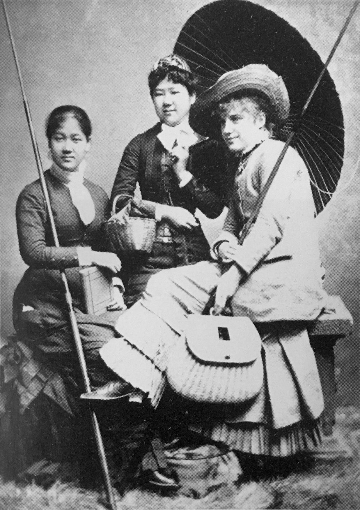 Vassar students Yamakawa Sutematsu, Nagai Shige, and Martha Sharpe, some time between 1878 and 1881.